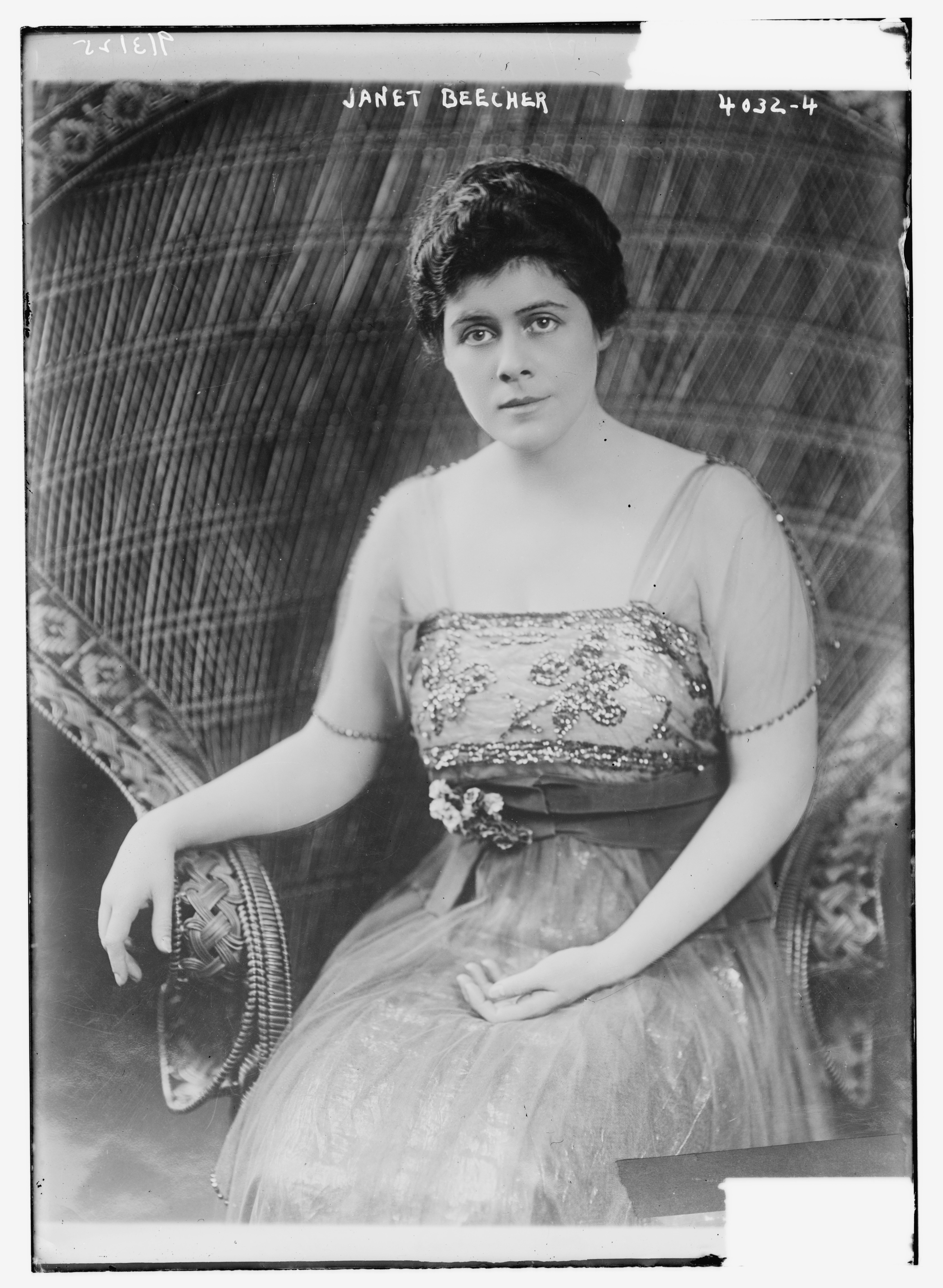 Janet Beecher in 1916